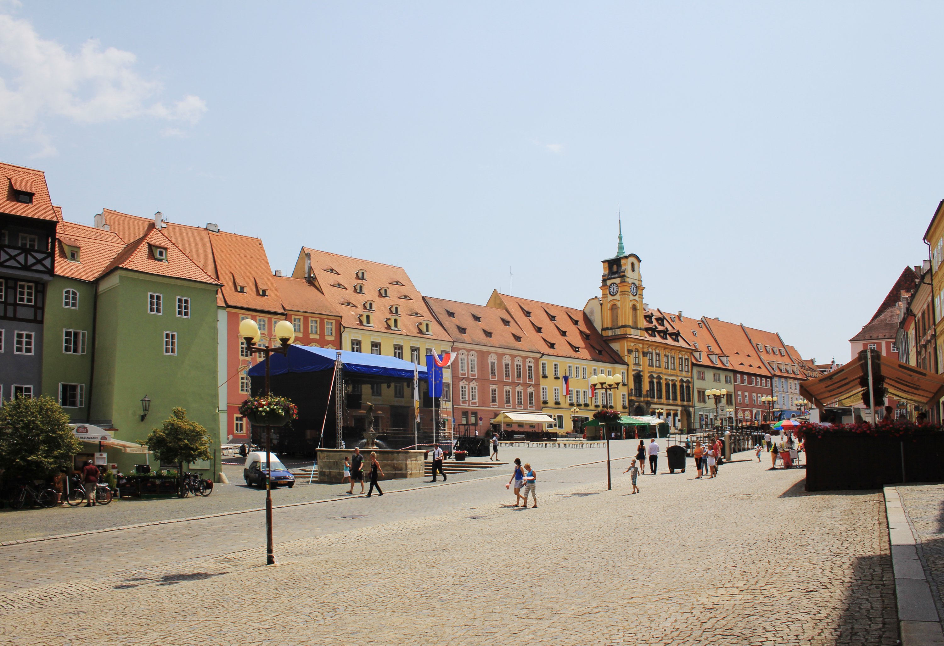 The market square of Cheb, Czech Republic Česky: Náměstí Krále Jiřího z Poděbrad v Chebu, západní Čechy